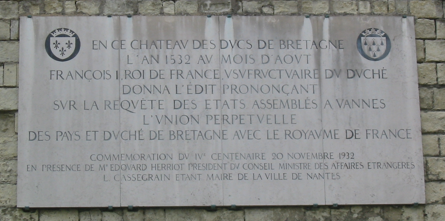 Union of Brittany and France, plaque, Ducal palace, Nantes